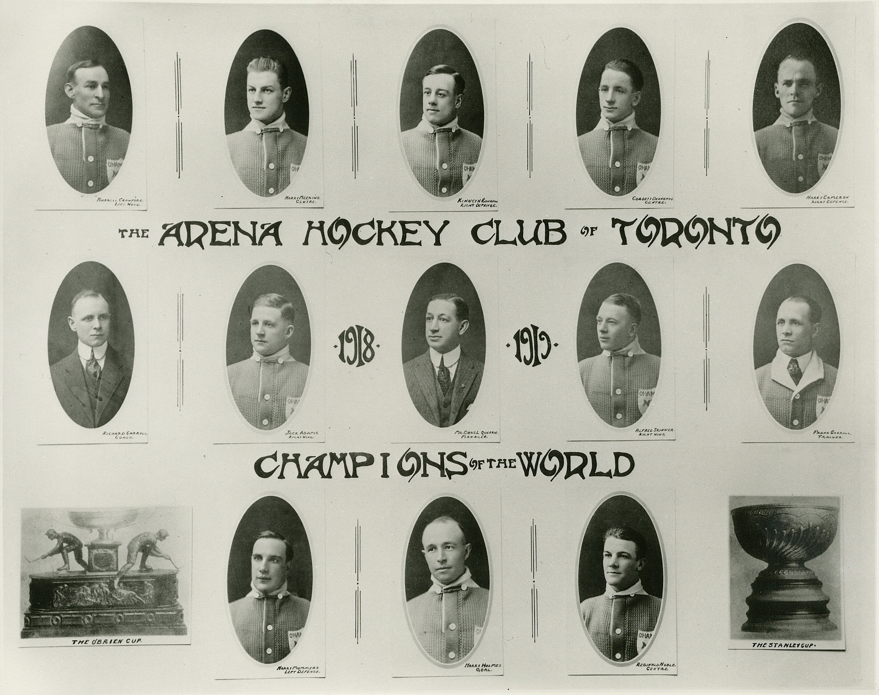 Team photo of the Arena Hockey Club of Toronto, a.k.a Toronto Arenas, O'Brien Cup and Stanley Cup Champions for the 1917–18 season. Top row, left to right: Russell "Rusty" Crawford, Harry Meeking, Ken Randall, Corbett Denneny and Harry Cameron. Middle row: coach Richard "Dick" Carroll, Jack Adams, team manager Charles Querrie, Alf Skinner, trainer Frank Carroll. Bottom row: Harry Mummery, Harry "Hap" Holmes and Reg Noble.